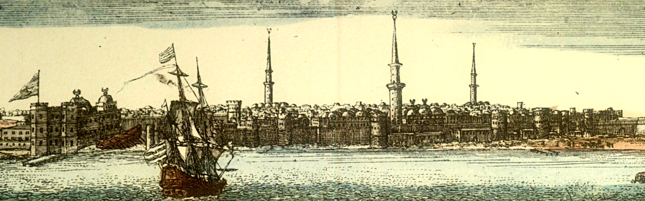 Detail of an engraving of Tripoli, Libya when it was part of the Ottoman Empire in 1675. Engraving by John Seller.